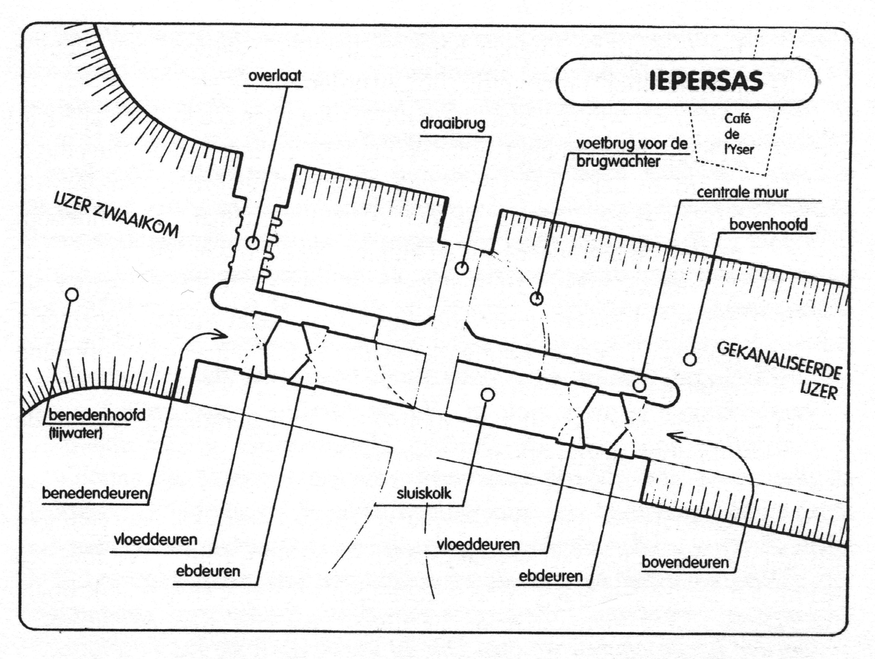 Iepersas: lock and spillover at the mouth oft he Yser